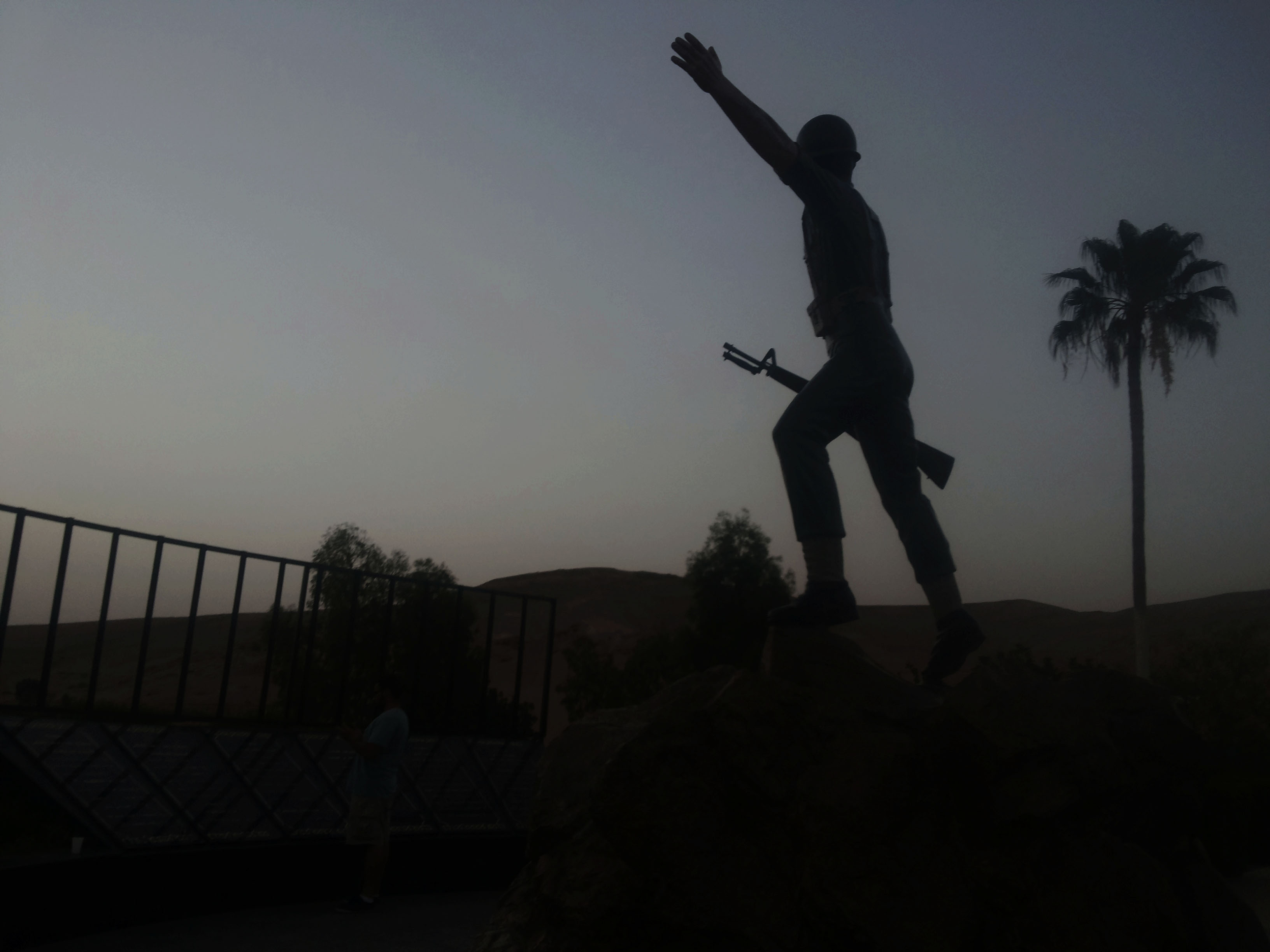 Karameh, Jordan Valley, Jordan